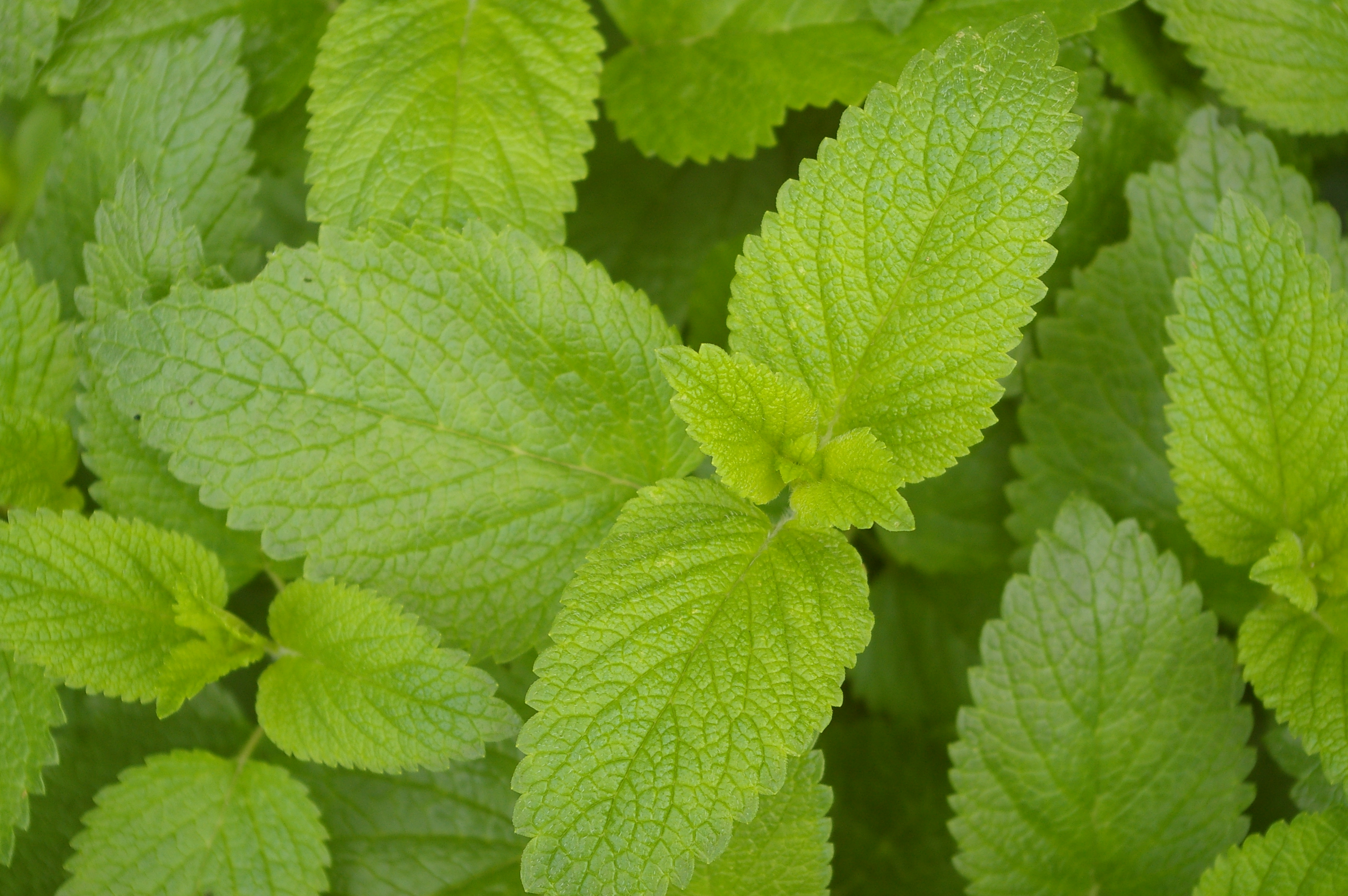 lemon balm